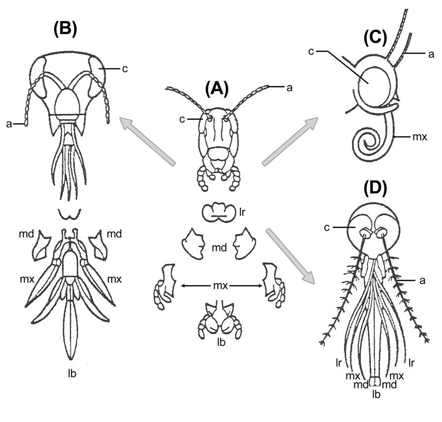 The development of insect mouthparts from the primitive chewing mouthparts of a grasshopper in the centre (A), to the lapping type (B) and the siphoning type (C). Legend: a, antennae; c, compound eye; lb, labium; lr, labrum; md, mandibles; mx, maxillae.